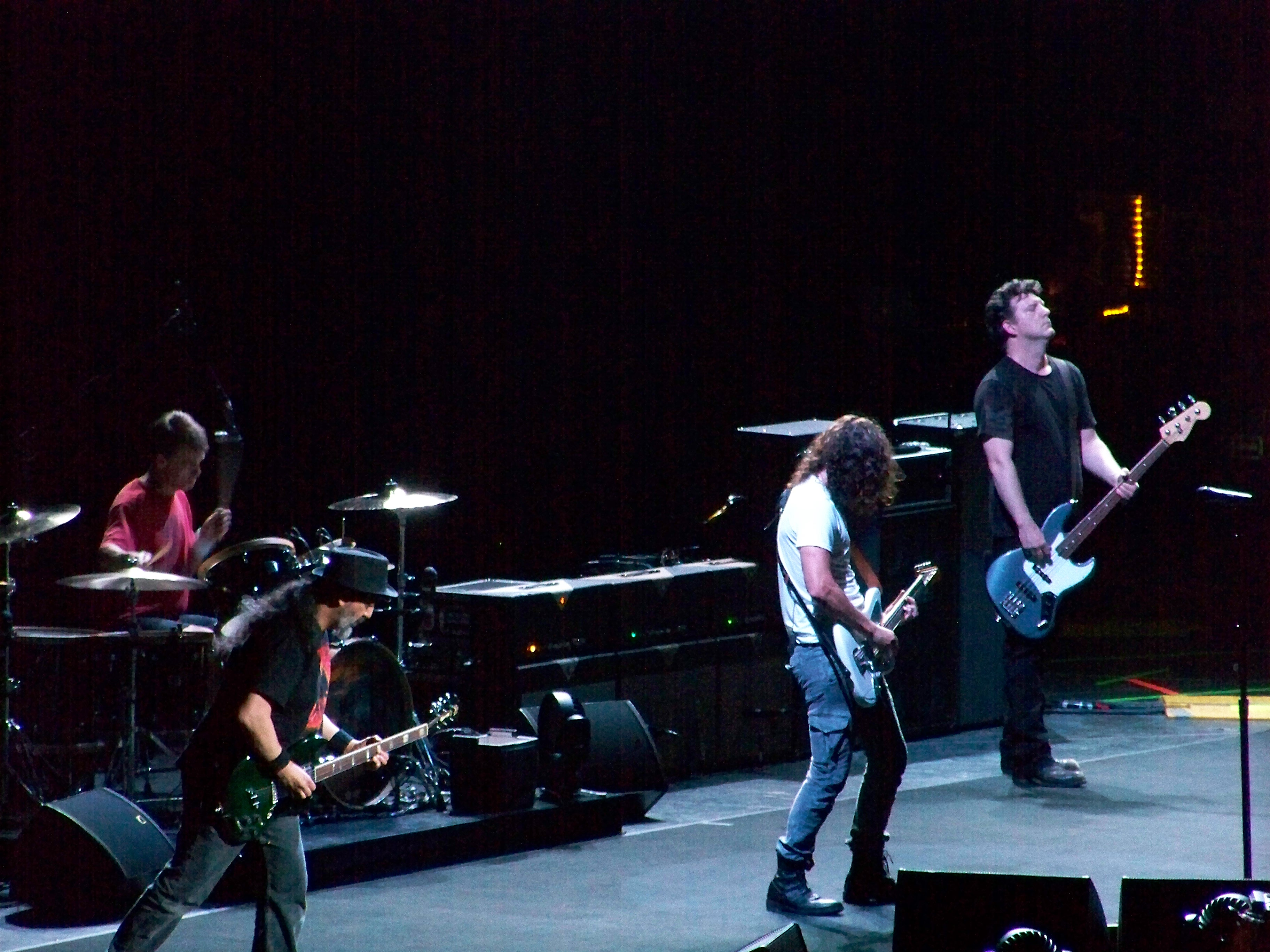 Soundgarden live at 2011